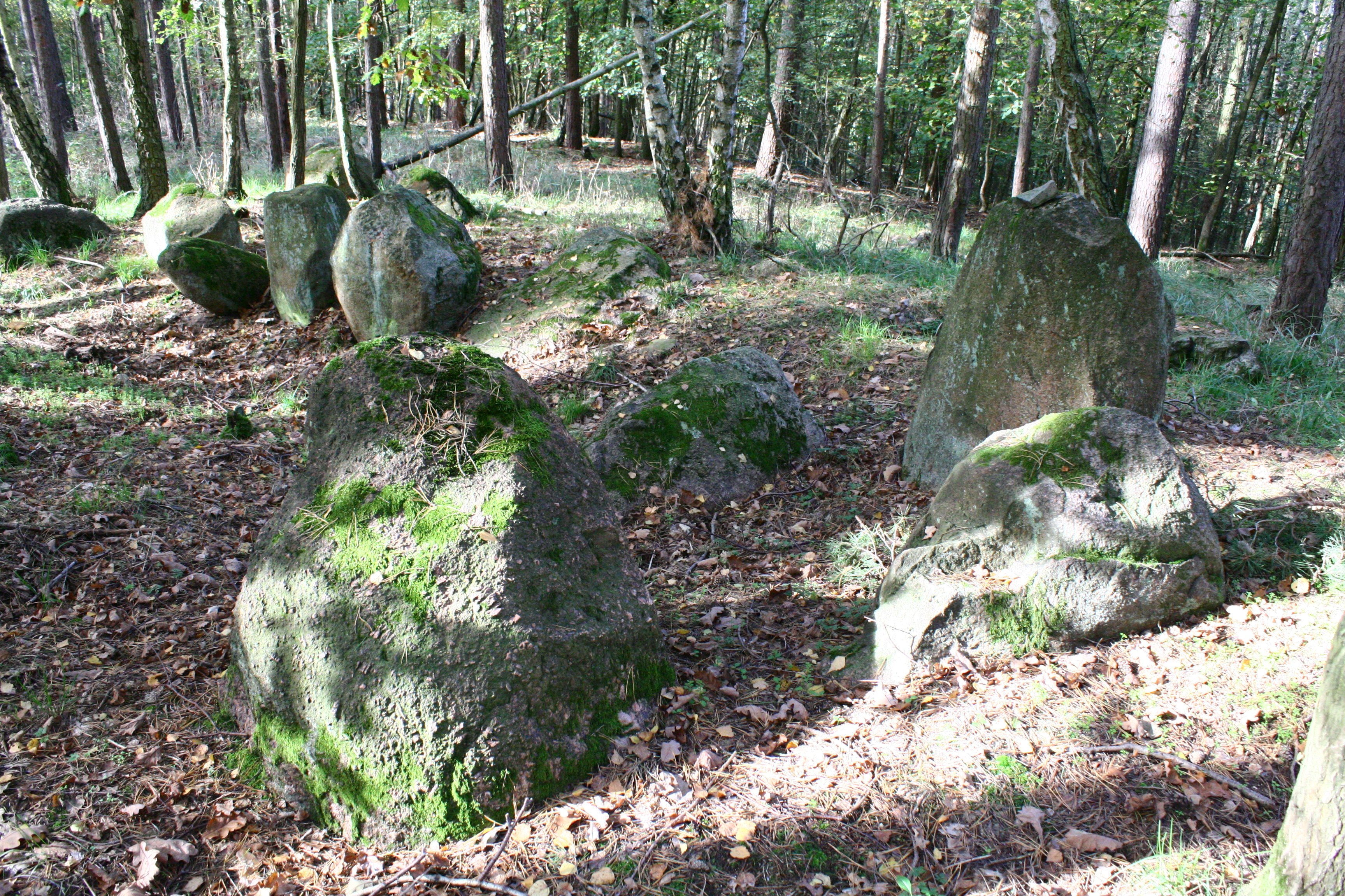 Megalithic tomb Sachsenberg